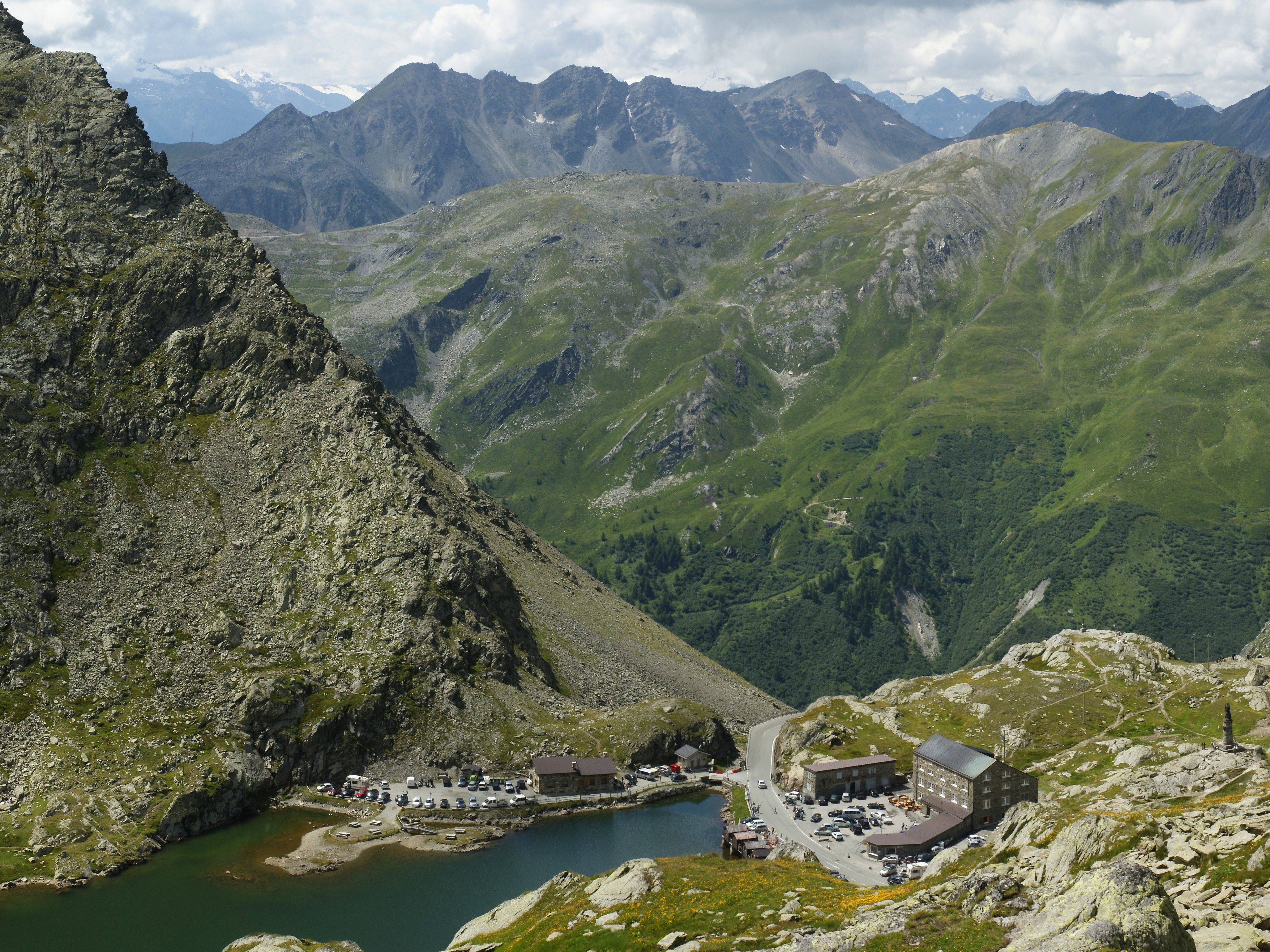 Great St. Bernard Pass at the Italy - Switzerland border. View in interactive viewer